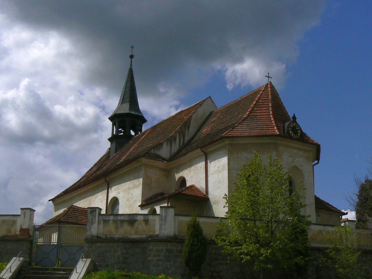 Saint Procopius' Church in Letiny, Plzeň-South District, Czechia